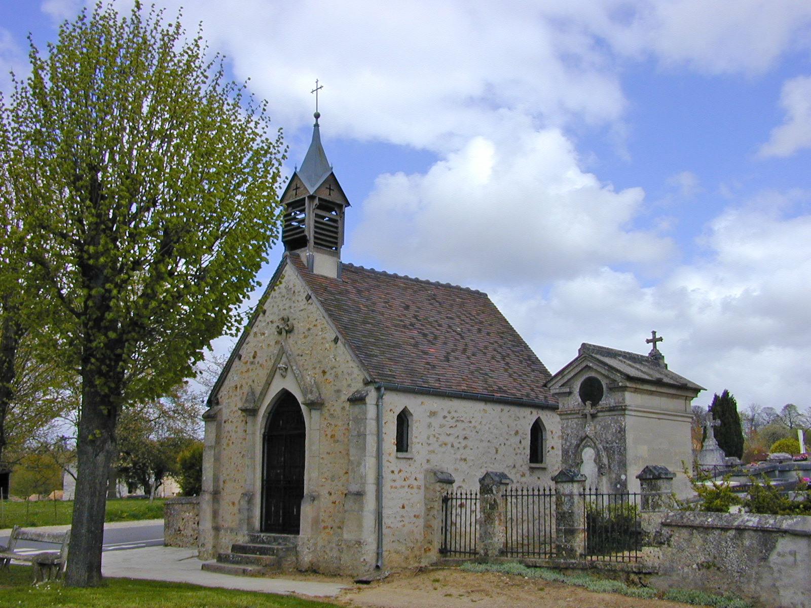 Photo of Aincourt St Sauveur Chapel